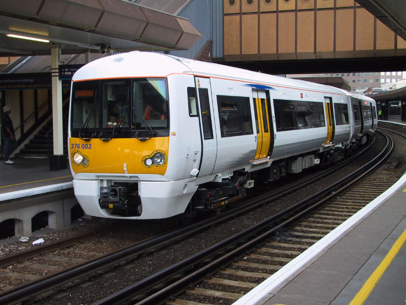 New SET electric trainset 376 002 at London Bridge, on the first day in public service. Photo by Terry Williams.